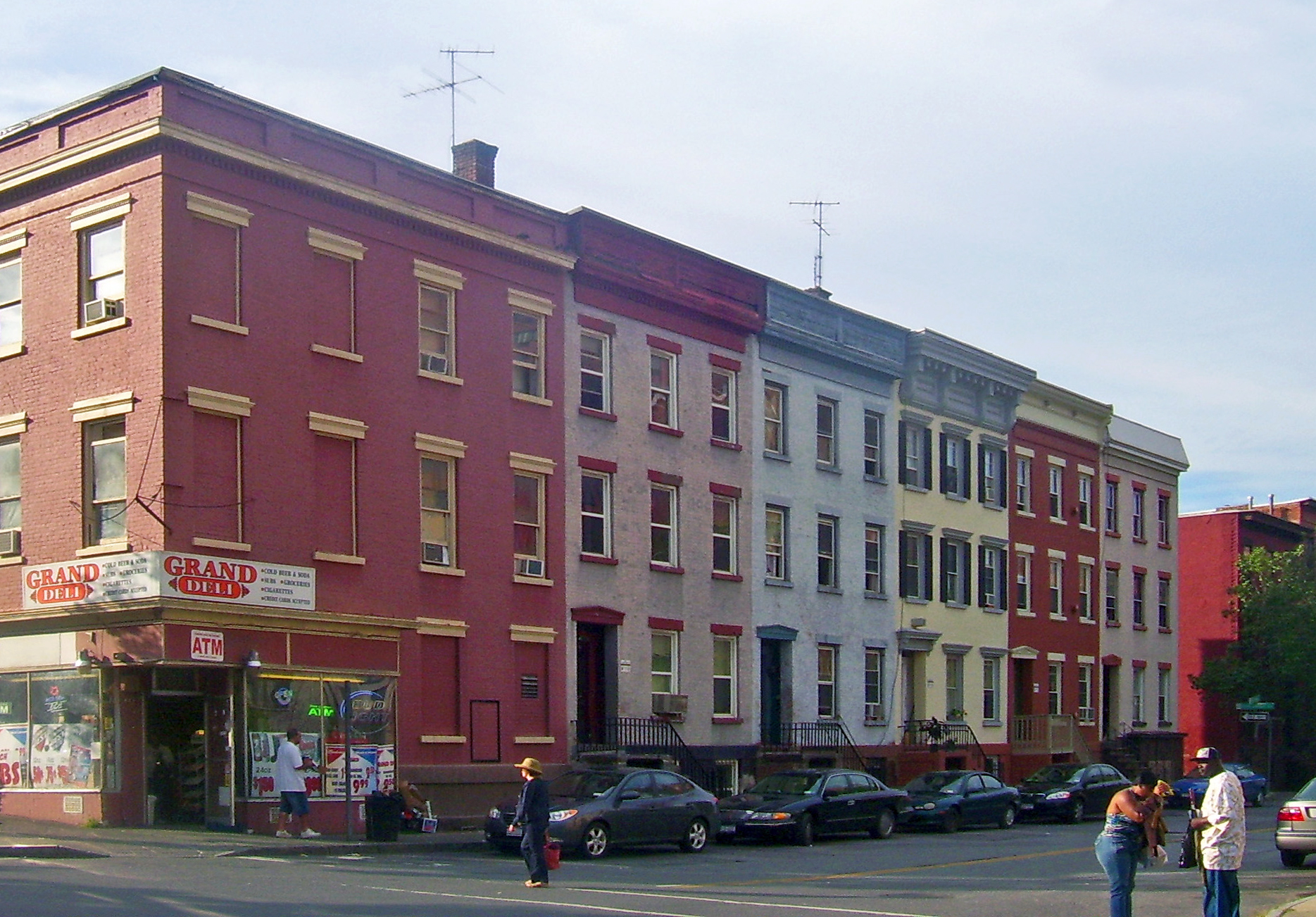 Houses on west side of Grand Street just north of Madison Street (US 20) in the Mansion Historic District, Albany, NY, USA